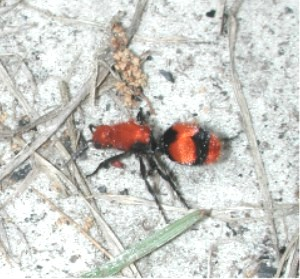 Female Velvet Ant- The cowants really look like this! Image copyleft